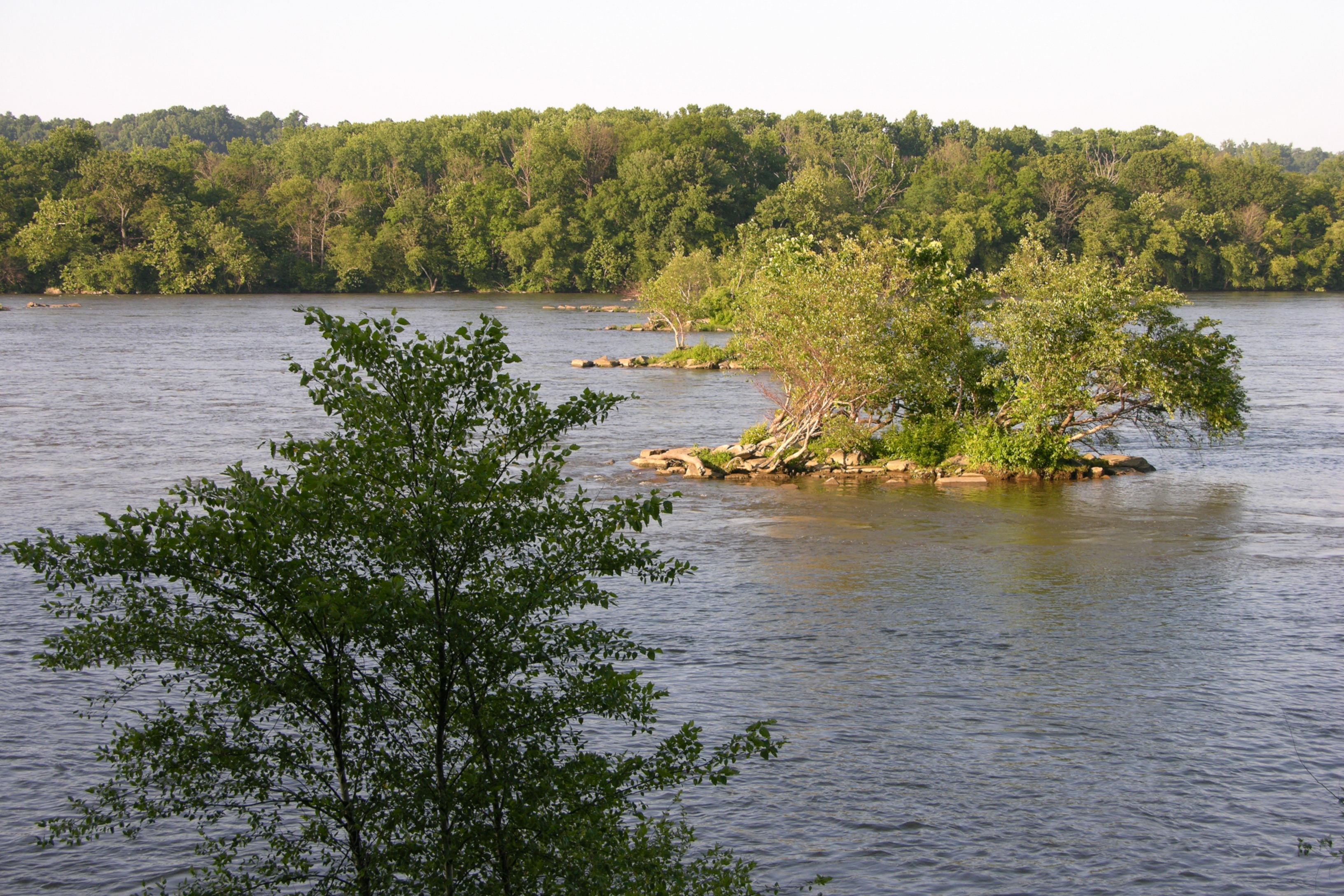 Picture of the Susquehanna_River from the Susquehanna State Park in Maryland somewhere along Stafford Road. The picture was taken looking NE. It was directly adjacent to an old two story house (plus a basement) with white siding and a stone foundation. This picture of the Susquehanna River includes the a number of the delapitated piers for the former bridge between Lapidum and Port Deposit. This Port Deposit Bridge, put into service in 1818, was the earliest bridge crossing of the Susquehanna River in Maryland. The wooden covered bridge was constructed just north of Port Deposit between 1817 and 1818 and had to be rebuilt after a span burned in 1823. It was reconstructed and remained in service until 1857. The piers were in relatively good shape in the 60's, but have been so badly damaged by high water periodically released from the Conowingo dam just upstream that they are now piles of stone in the river. Williamborg 14:04, 13 May 2007 (UTC) The old two story house (plus a basement) with white siding and a stone foundation which the uploader refers to was the former toll house for the bridge. Skål - Williamborg 14:08, 13 May 2007 (UTC) The far shoreline in the image is not the left bank of the river, but Wood Island. Wood Island is only 0.25 miles from the near (right) river bank, and the entire river is about 0.81 miles wide at this point, so this image is not indicative of the width of the river. --J Clear (talk) 01:14, 25 January 2010 (UTC)